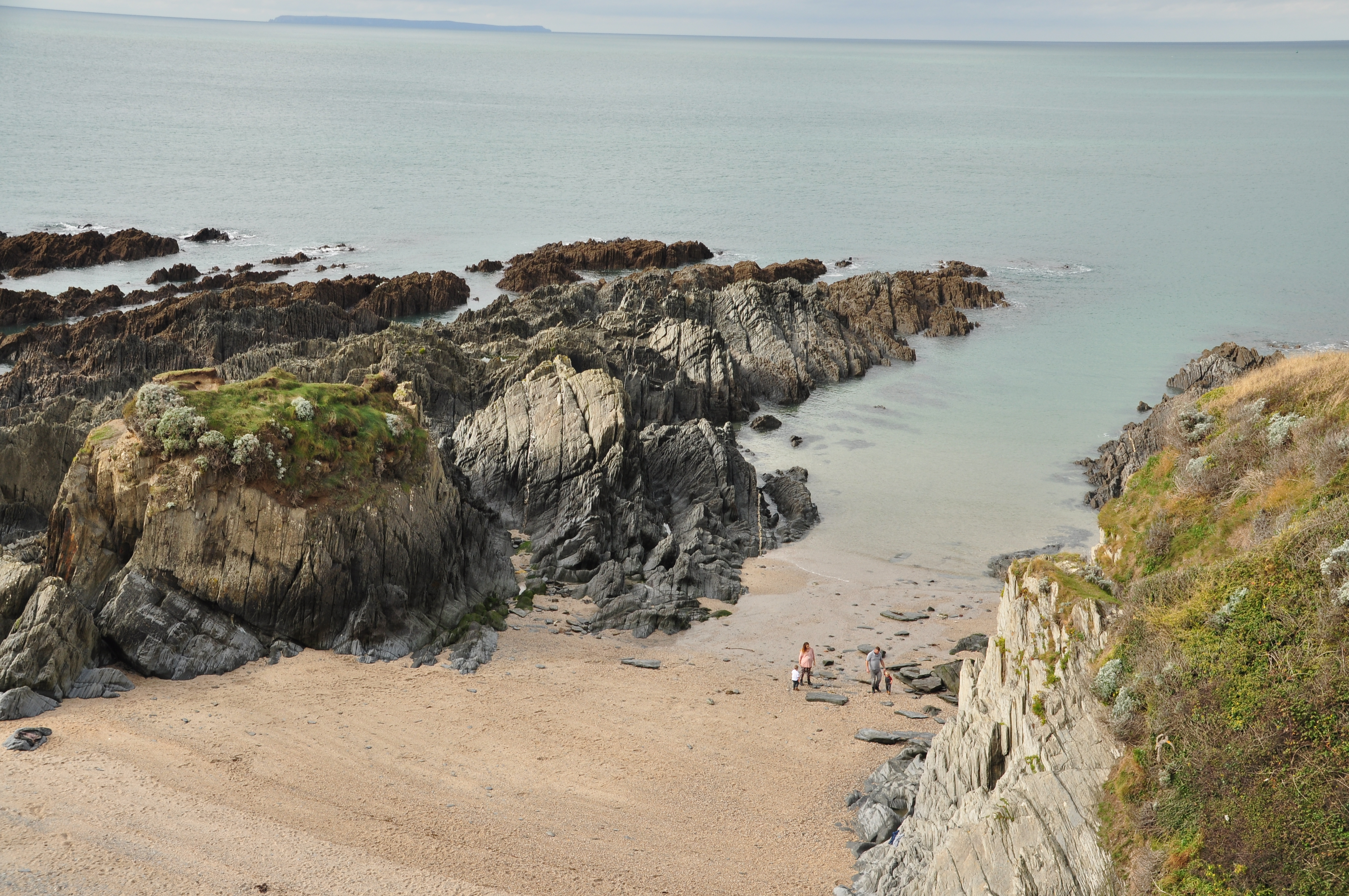 Barricane Beach